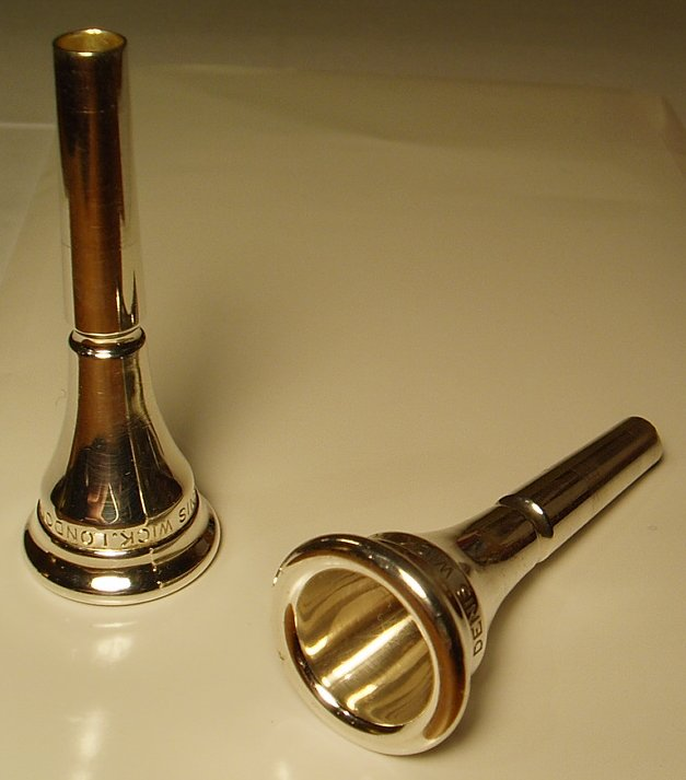 My own mouthpieces. Model Denis Wick 7N & 5N